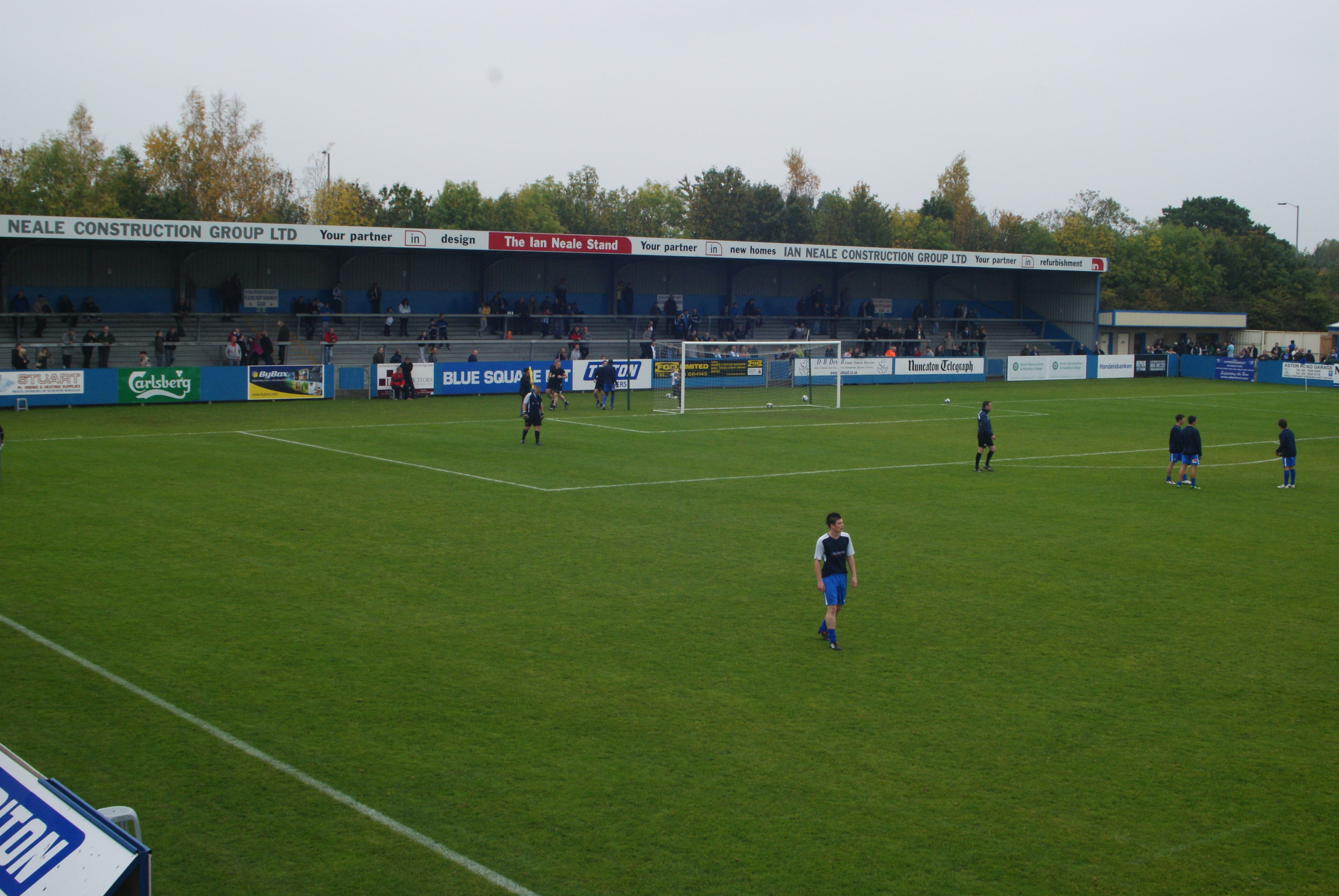 Image of the Britannia Tyres Stand at The Triton Showers Community Arena, Nuneaton.